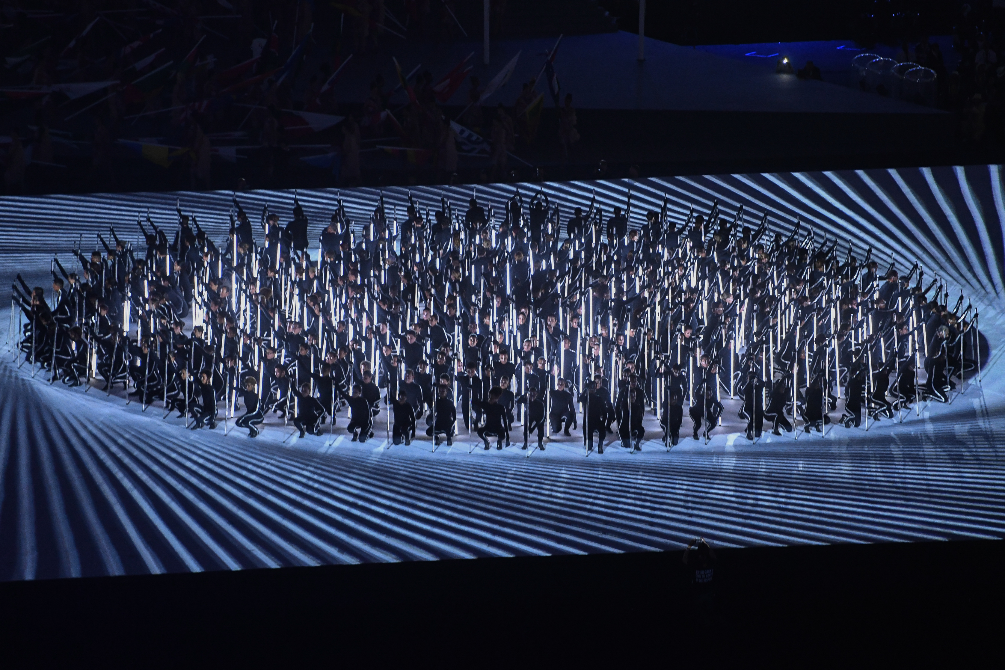 2016 Summer Paralympics opening ceremony